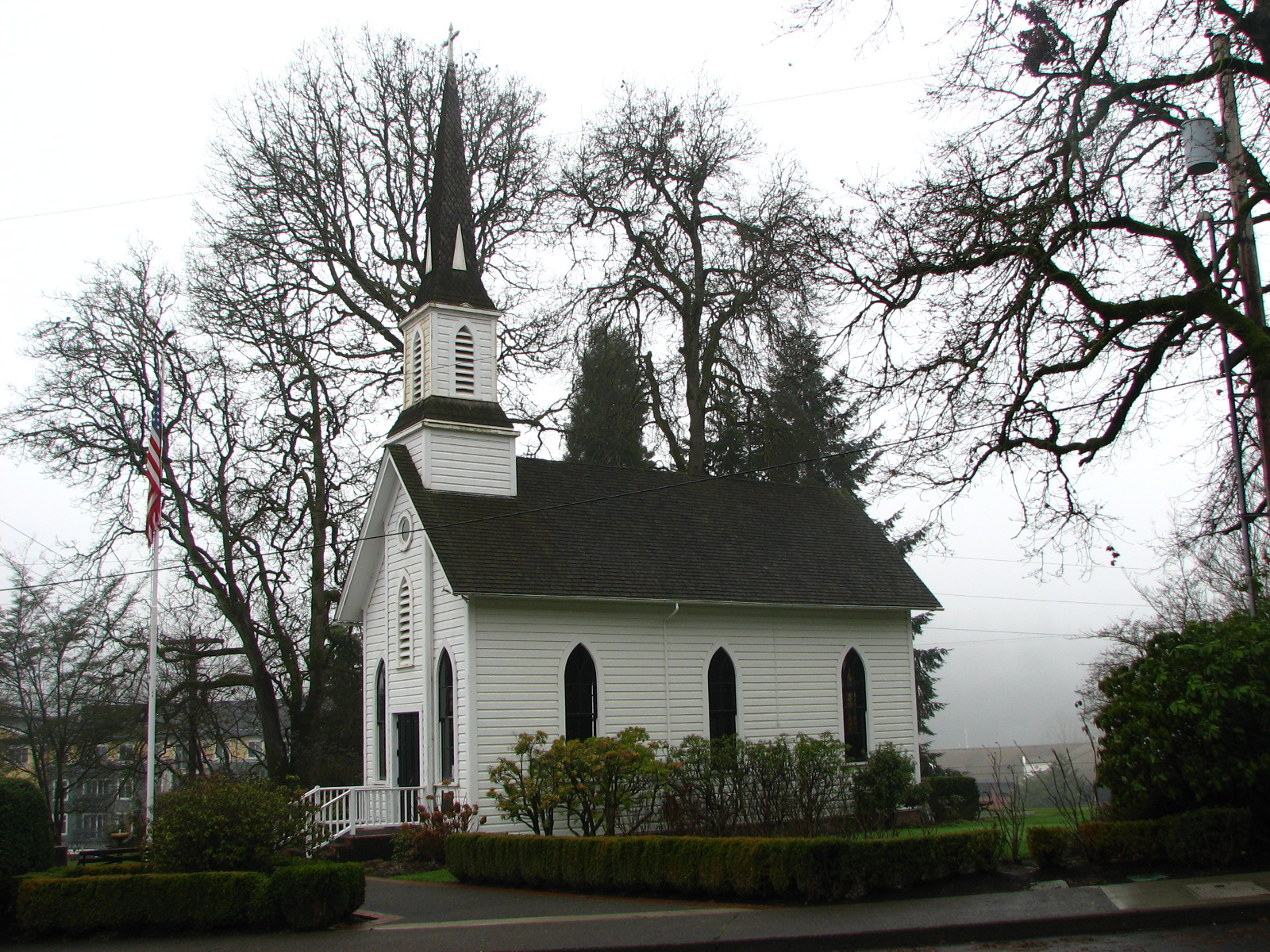 The historic St. Johns Episcopal Church (built 1851, moved to current location 1961), located at 455 Southeast Spokane Street in Portland, Oregon, United States, is listed on the US National Register of Historic Places (NRHP). NRHP reference number 74001712